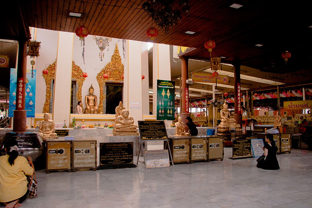 บริเวณด้านหน้าพระอุโบสถหลวงพ่อวัดไร่ขิง